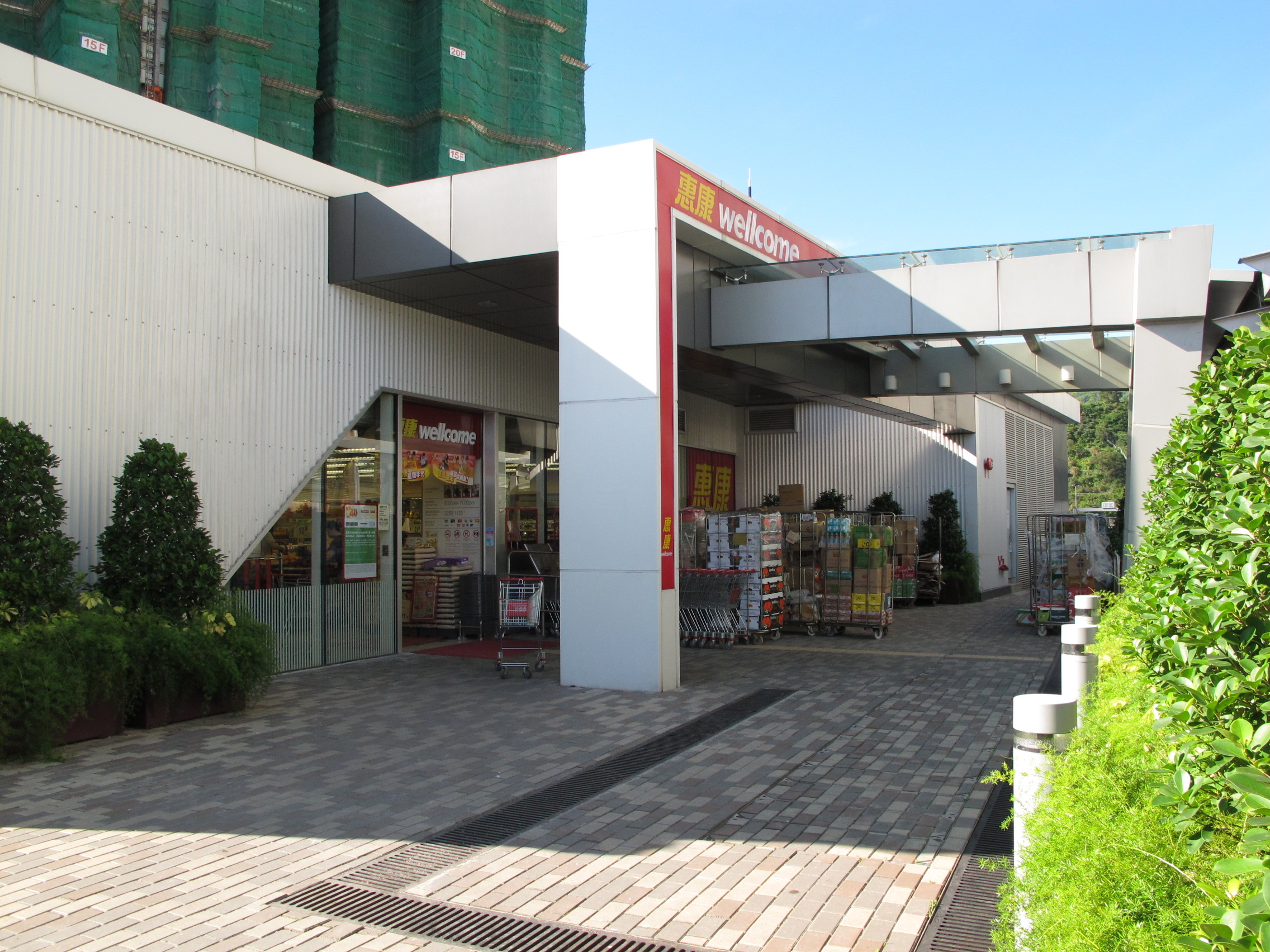 Wellcome Supermarket in Lohas Park, 將軍澳康城地鐵站上蓋臨時街市